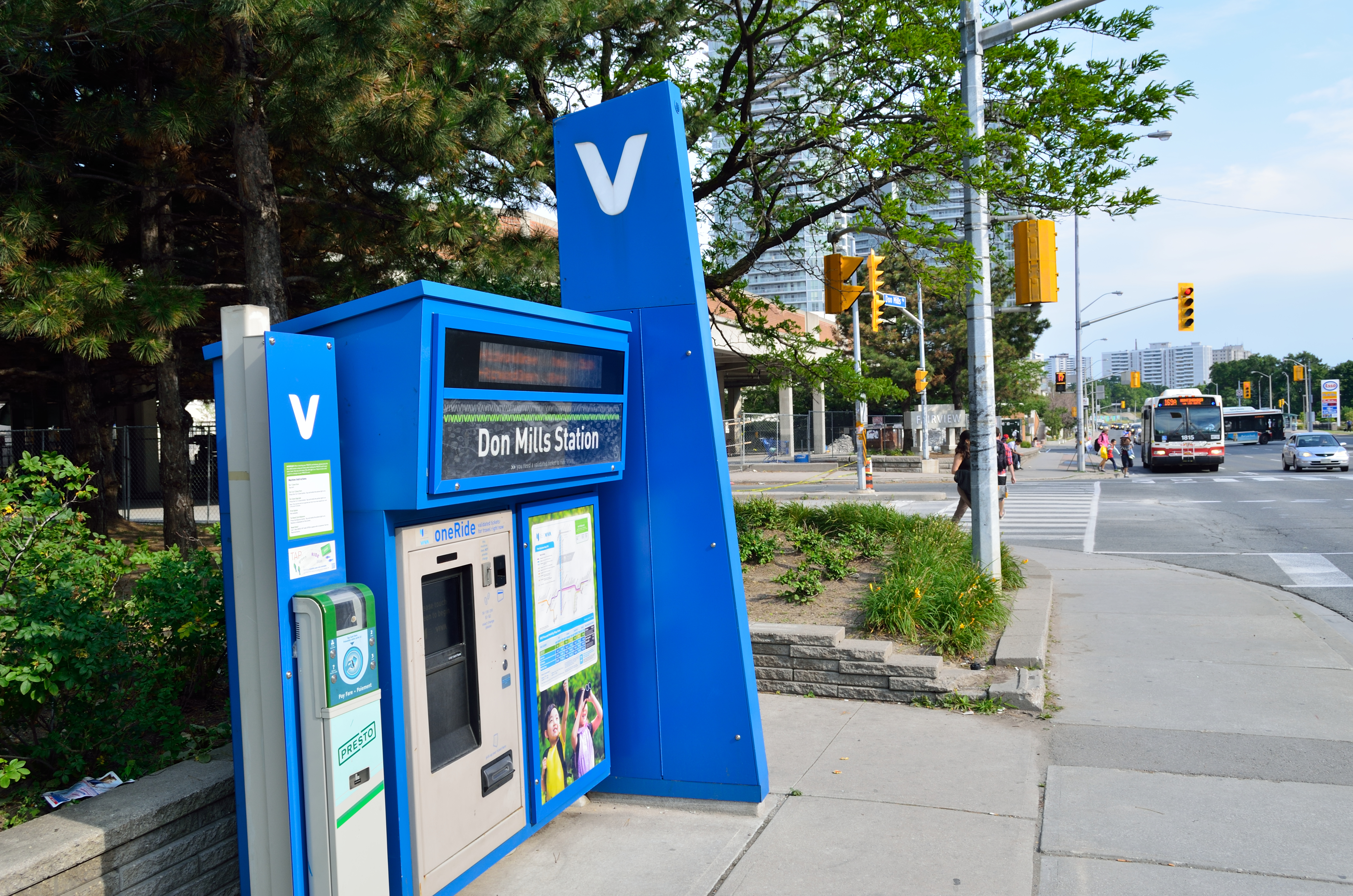 Don Mills Station VIVA. Stop 9768. This is a northbound stop on Don Mills Road at Leith Hill Road, on the west side of Fairview Mall.